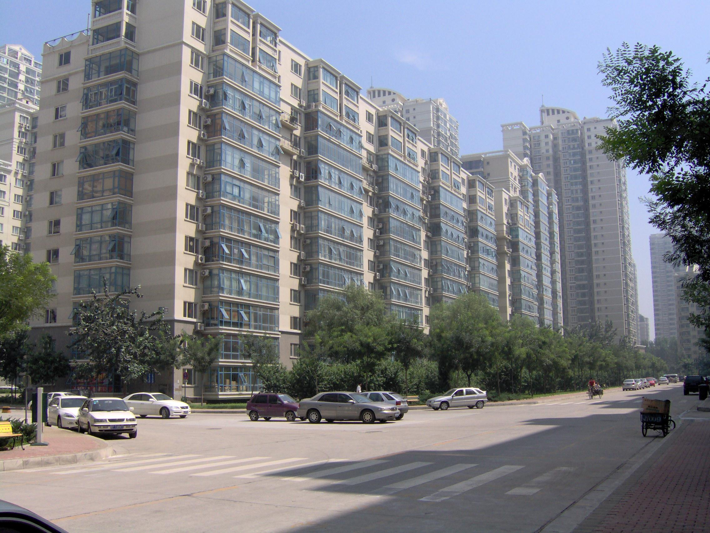 Taken within Tiantongyuan apartment complex